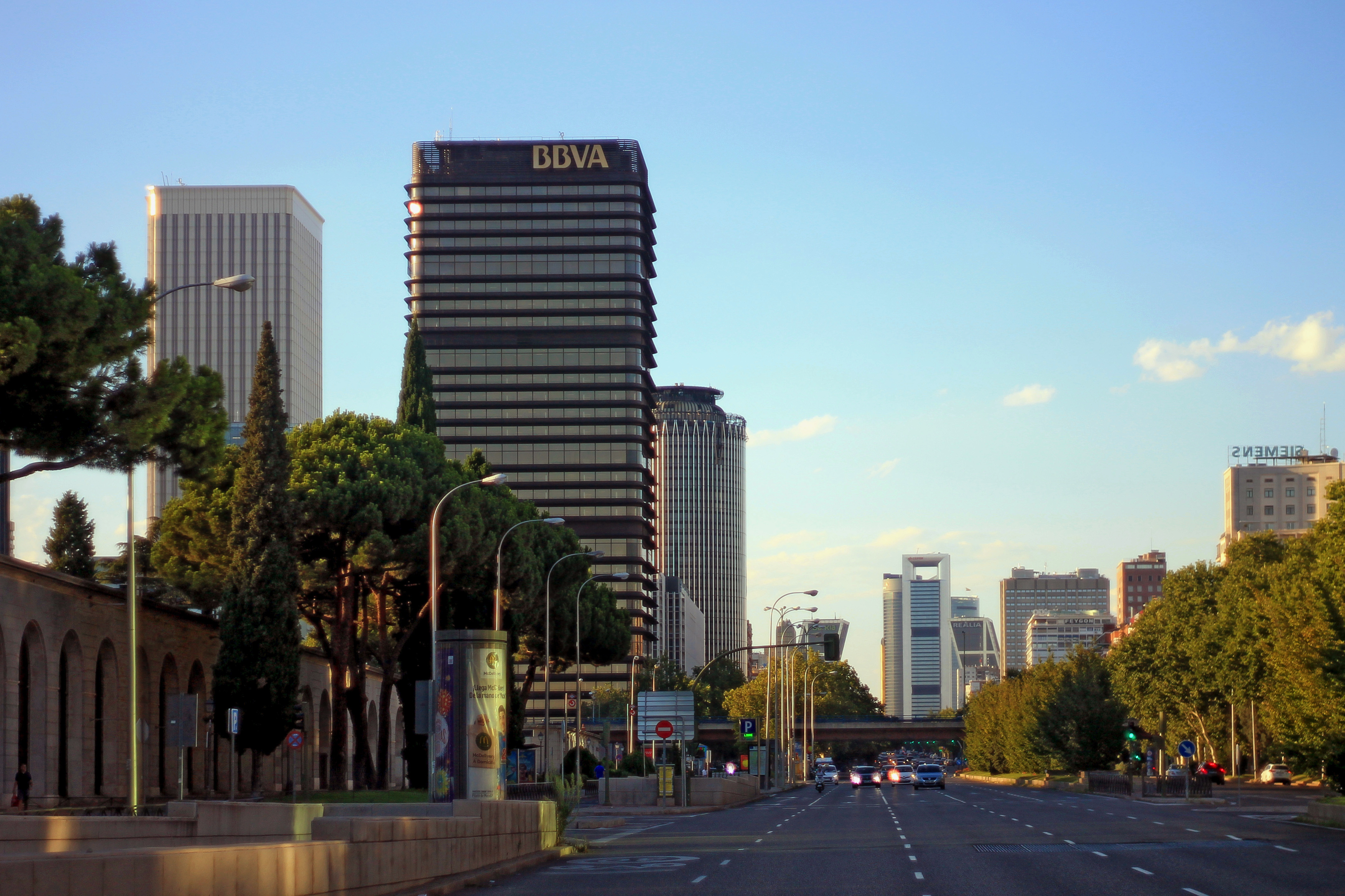 View from Paseo de la Castellana (avenue) in Madrid (Spain).